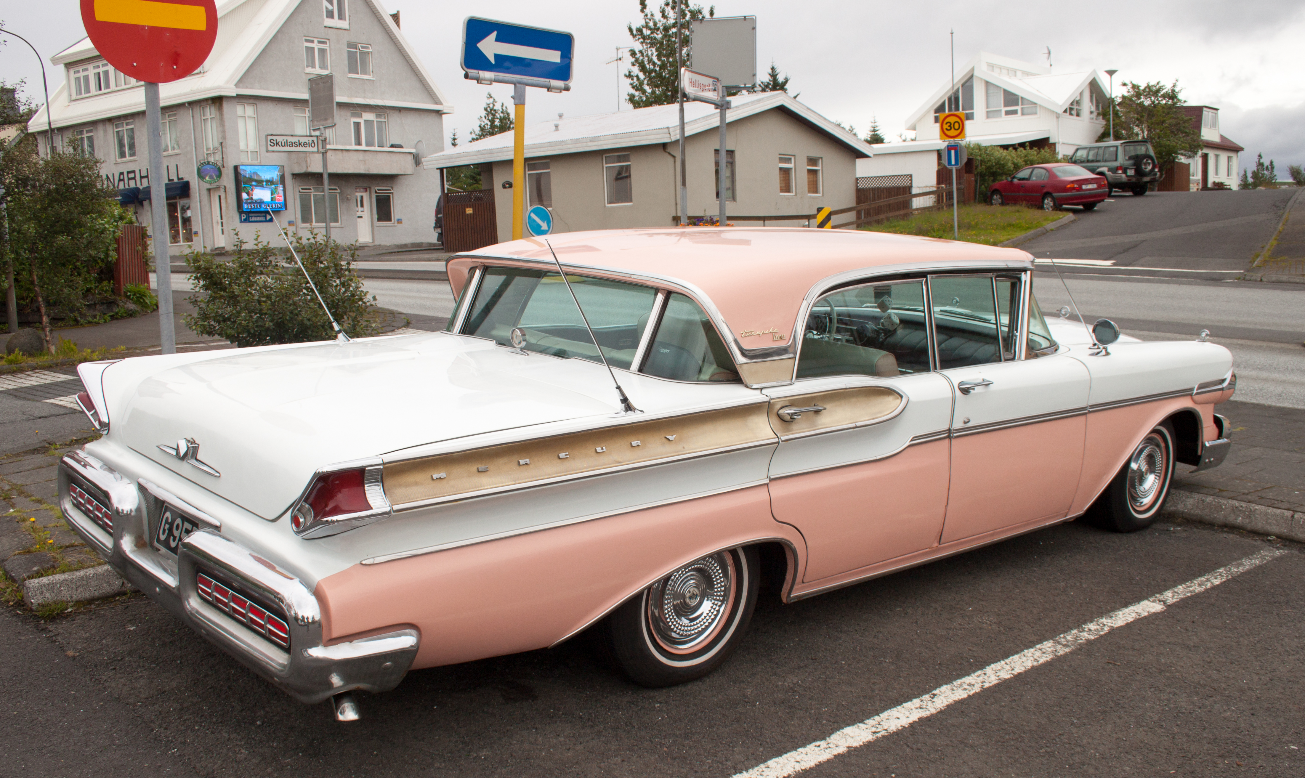 Mercury Turnpike Cruiser in Hafnarfjörður, Iceland